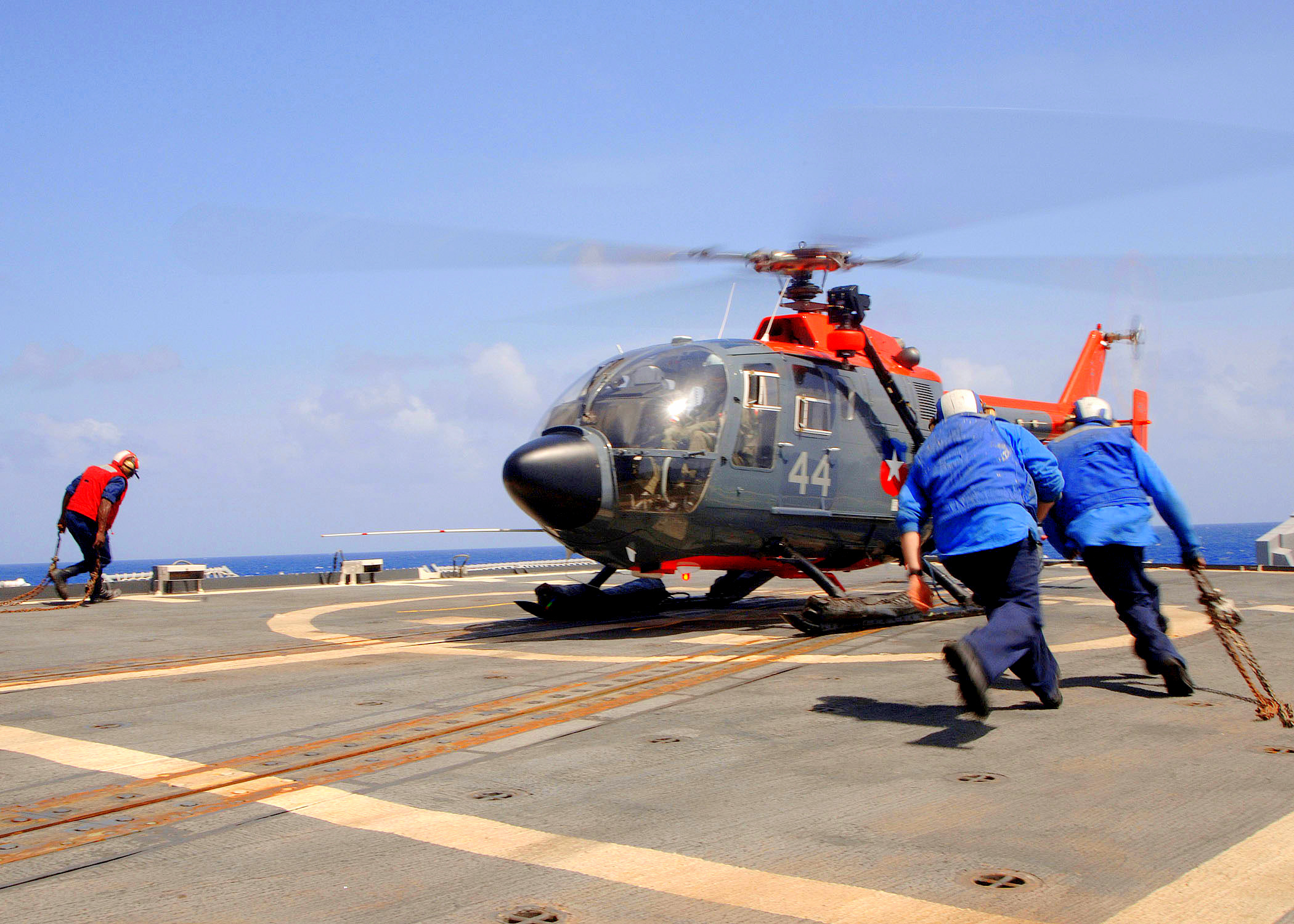 Caribbean Sea (July 18, 2005) - Flight deck personnel assigned to the guided missile cruiser USS Thomas S. Gates (CG 51) hustles to secure a Chilean BO 105C helicopter during a helicopter cross deck training exercise in the Caribbean Sea. Thomas S. Gates is part of a multinational naval and coast guard force from six nations conducting UNITAS 46-05 Pacific Phase off the coasts of Colombia. The Colombian Navy in this year's UNITAS Pacific Phase hosts Ecuador, Panama, Peru and the United States. During the two-week exercise, participating units have the opportunity to train as unified force in all aspects of naval operations, from maritime interdiction to anti-submarine and electronic warfare. U.S. Naval Forces Southern Command sponsors UNITAS exercises with the objective to foster cooperation and develop interoperability among the navies of the region. U.S. Navy photo by Photographer's Mate 2nd Class Michael Sandberg (RELEASED)